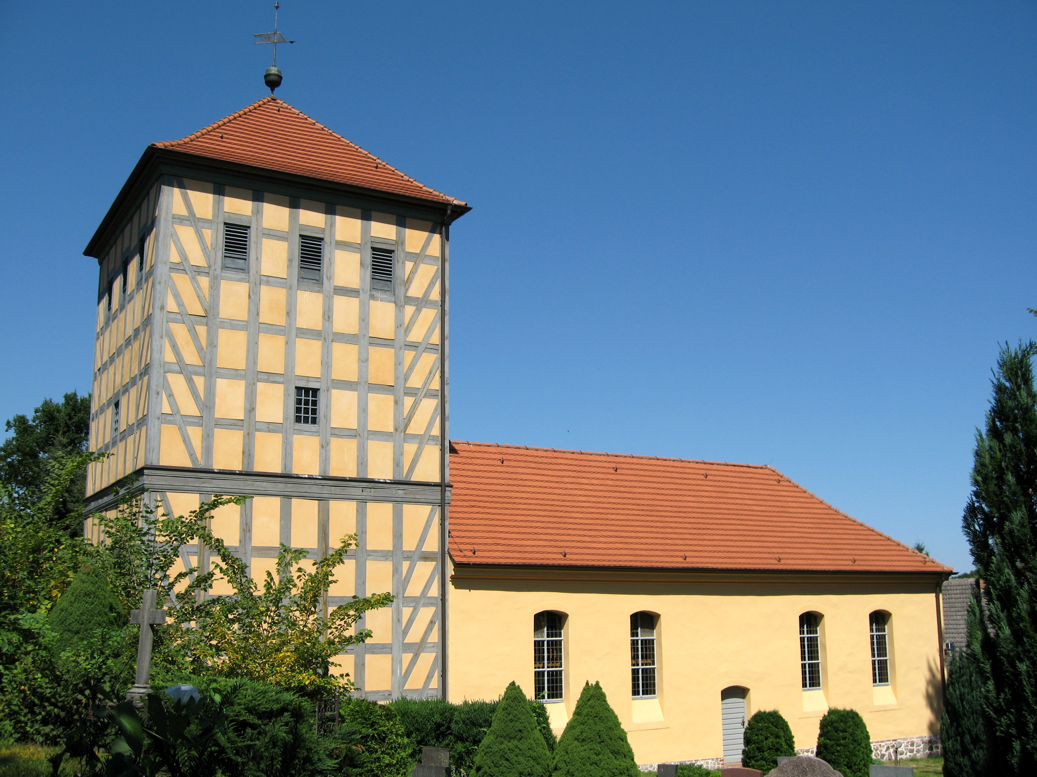 Church in Prenden (Wandlitz) in Brandenburg, Germany